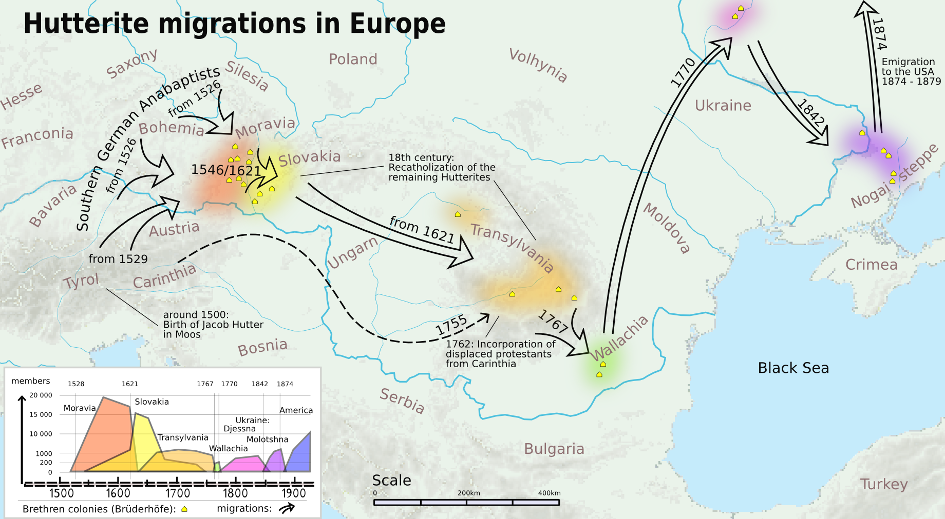 The map is based on "Europe_topography_map.png" by user:San Jose and some books about the Hutterite comunities. Authors: User:Karlis, User:Feetjen and users of the mapping-workshop